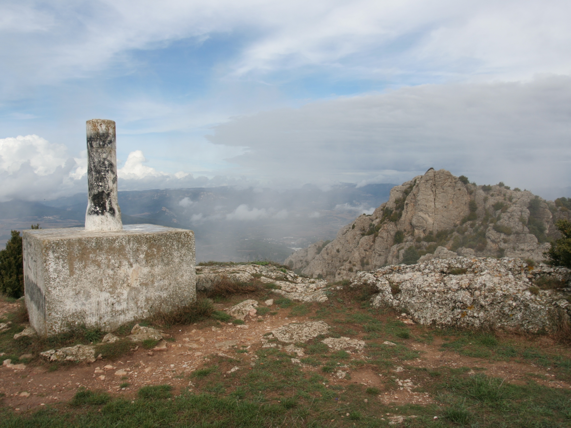 Montejurra. View from the westernmost to the central summit. The easternmost summit not visible